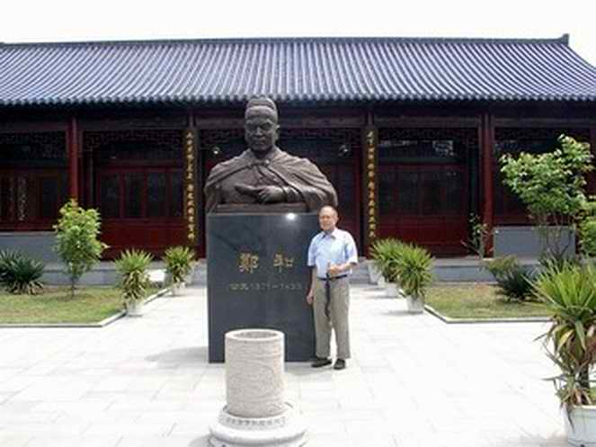 Photo taken in May 2007 of Peter Pang, a direct descendant of Wenming, Zheng He's elder brother next to a statue of Zheng He, in front of Zheng He Museum in Nanjing. The museum and statue are located at the foothill of Niushou Shan ("Cow's Head Mountain") in Jiangning District of Nanjing, a short walk from the supposed tomb of Zheng He, a few miles SW of the city center. Peter Pang has given his permission to use this photo in an email sent to me dated 1st June, 2007: ". . . by all means use them and send them to the website." John Hill 23:18, 1 June 2007 (UTC)